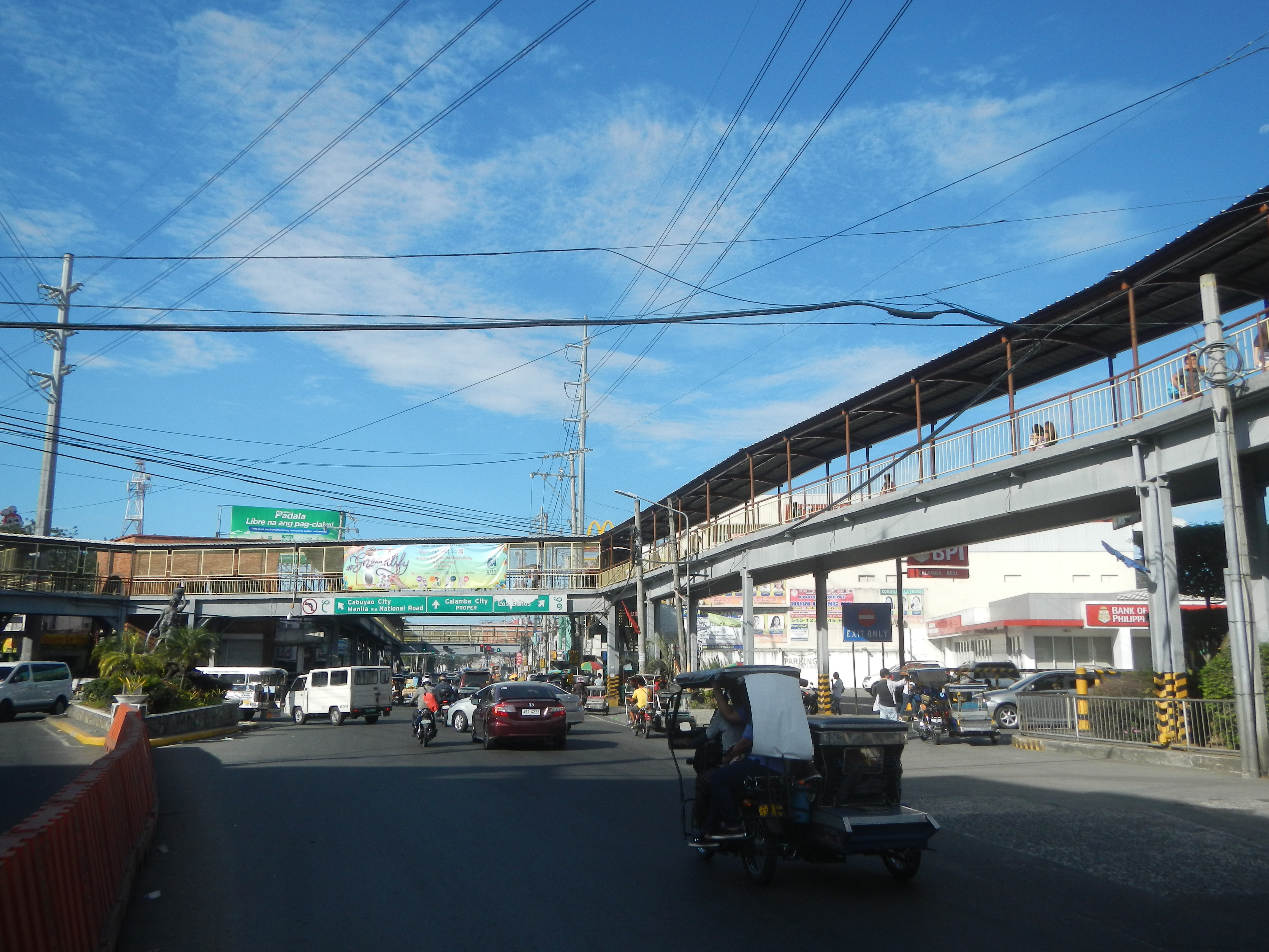 The Lady with the KALAN-BANGA, Calamba Exterior of SM City Calamba Walter Mart Calamba-Real HM Transport Inc. Real, Calamba 14°11'49"N 121°9'2"E from Turbina and Milagrosa, Calamba along Maharlika Highway (Calamba City section) Pan-Philippine Highway; in Makiling 14°9'8"N 121°8'17"E Barangays Makiling, Calamba Milagrosa Turbina, Calamba Real, Calamba Poblacion I, Calamba Poblacion II, III, IV, VI and VII, Calamba and Poblacion V, Calamba Calamba, Laguna Poblacion 14°12'32"N 121°9'46"E Calamba Poblacion (Note: Judge Florentino Floro, the owner, to repeat, Donor Florentino Floro of all these photos hereby donate gratuitously, freely and unconditionally Judge Floro all these photos to and for Wikimedia Commons, exclusively, for public use of the public domain, and again without any condition whatsoever).